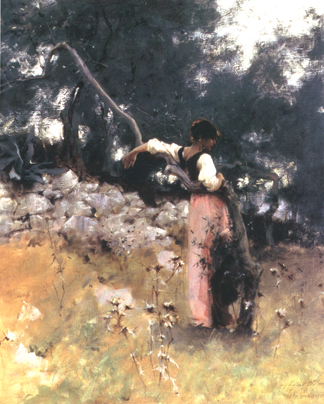 Portrait of Rosina; Dans les Oliviers